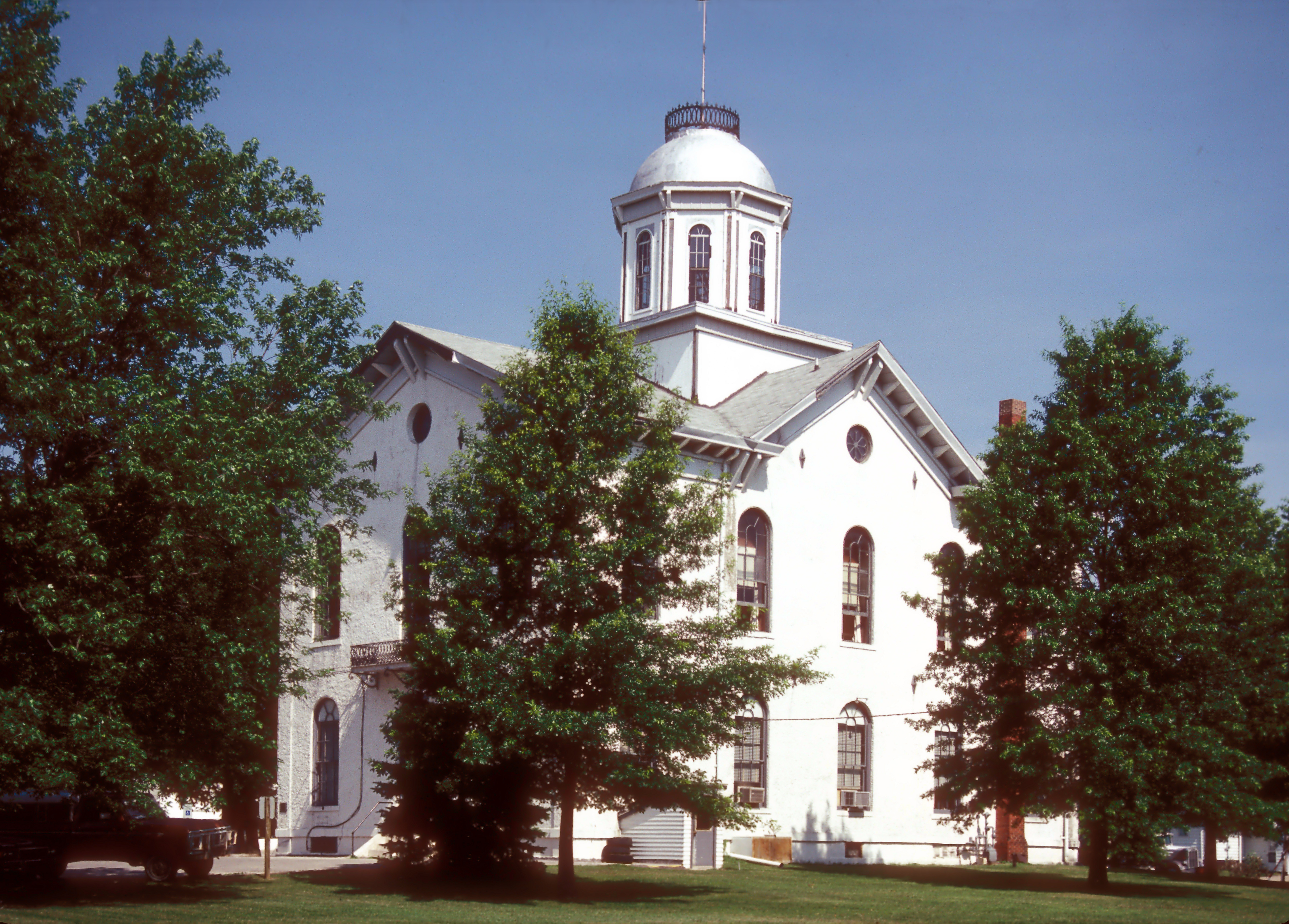 COMPLETED IN 1871 AND IS A TWO STORY ITALIANATE BRICK BUILDING WITH TALL ARCHED WINDOWS AND AN OCTAGONAL CUPOLA AT THE CROSSING OF THE GABLED ROOFS. THIS COURTHOUSE MAY BE DEMOLISHED NOW AS A NEW COURTHOUSE HAS BEEN CONSTRUCTED